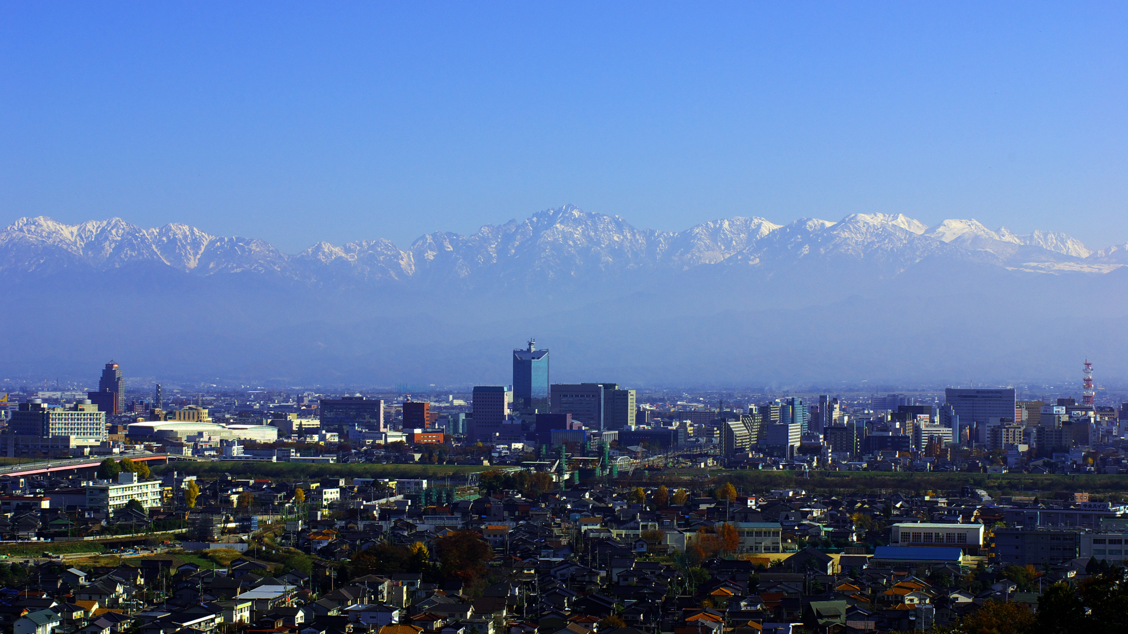 Mount Tsurugi and Mount Tate with Toyama City. Taken with PENTAX K10D + smc PENTAX-A 1:1.2 50mm, trimmed to the 16:9 ratio